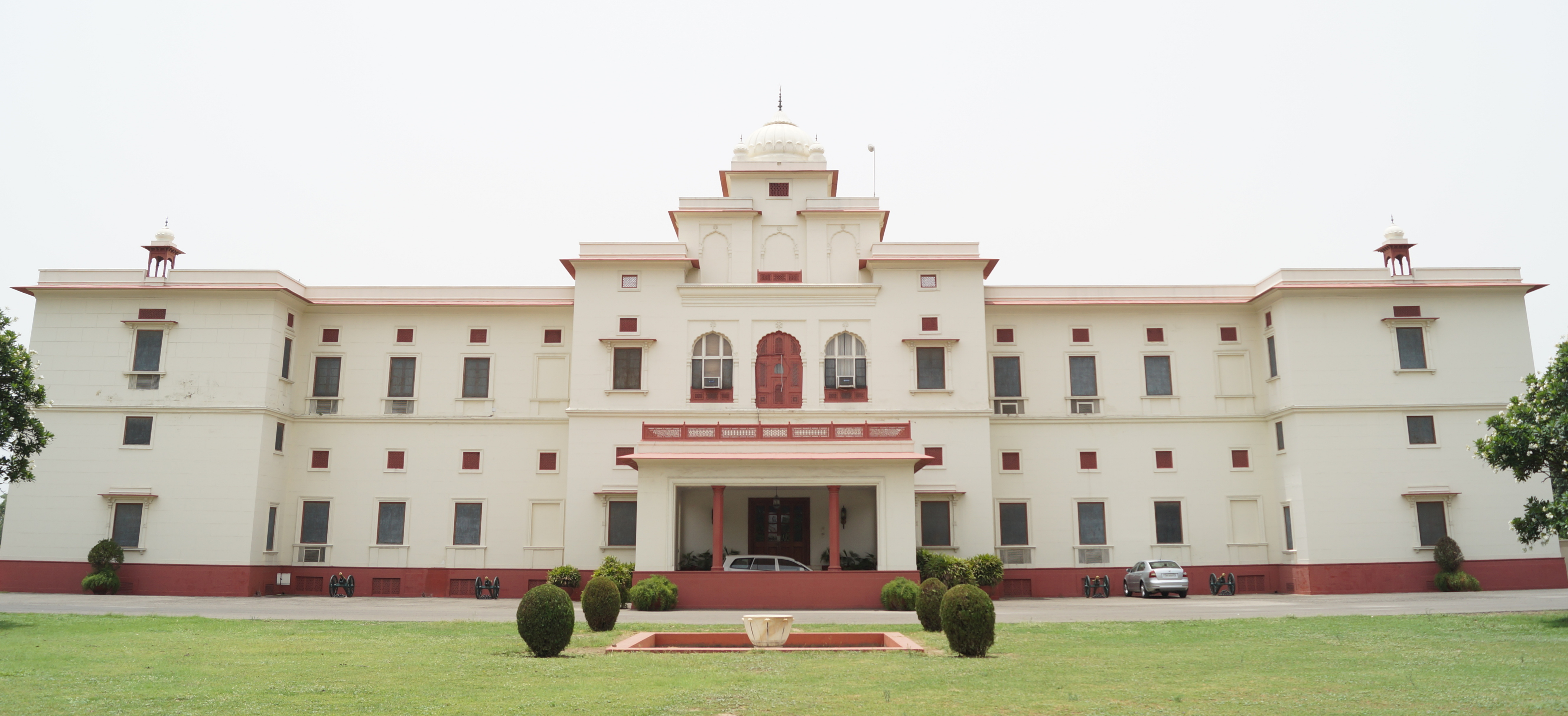 A Painting at New Moti Bagh Palace, Patiala